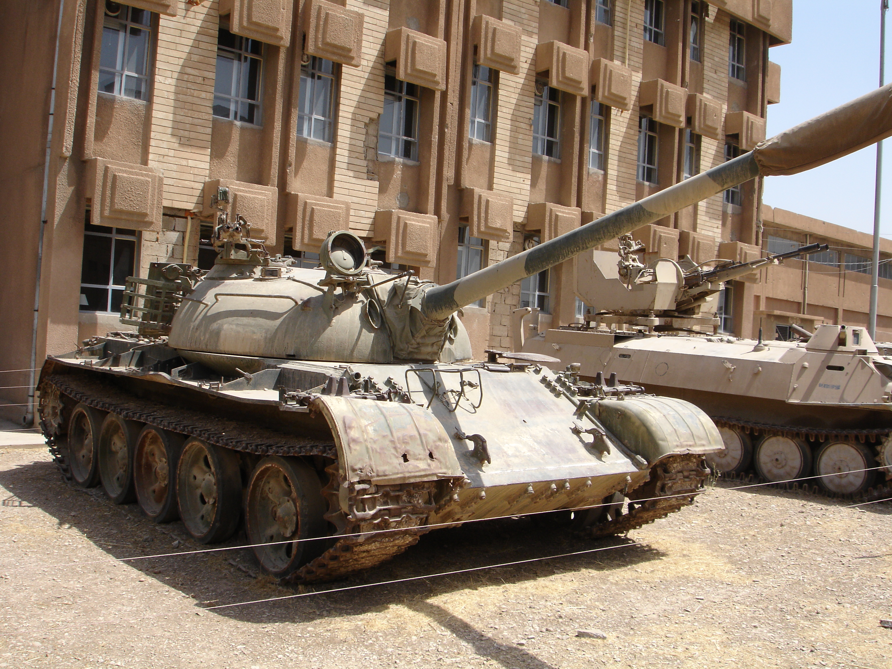 Amna Sur Museum in Sulaymaniyah. Rusted and wrecked vehicles of the Iraqi army. This Picture was taken in Kurdistan.